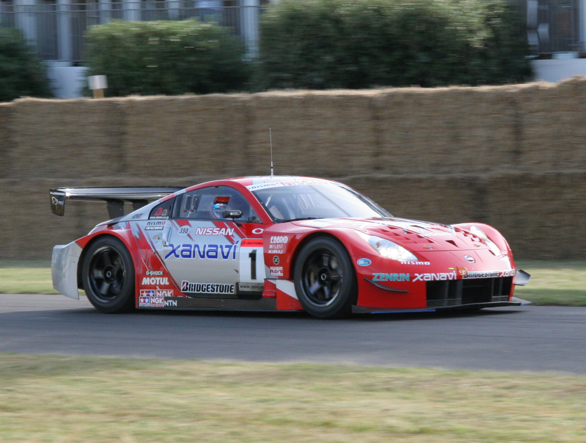 2004 Nissan 350Z GT500 (JGTC) at the 2006 Goodwood Festival of Speed